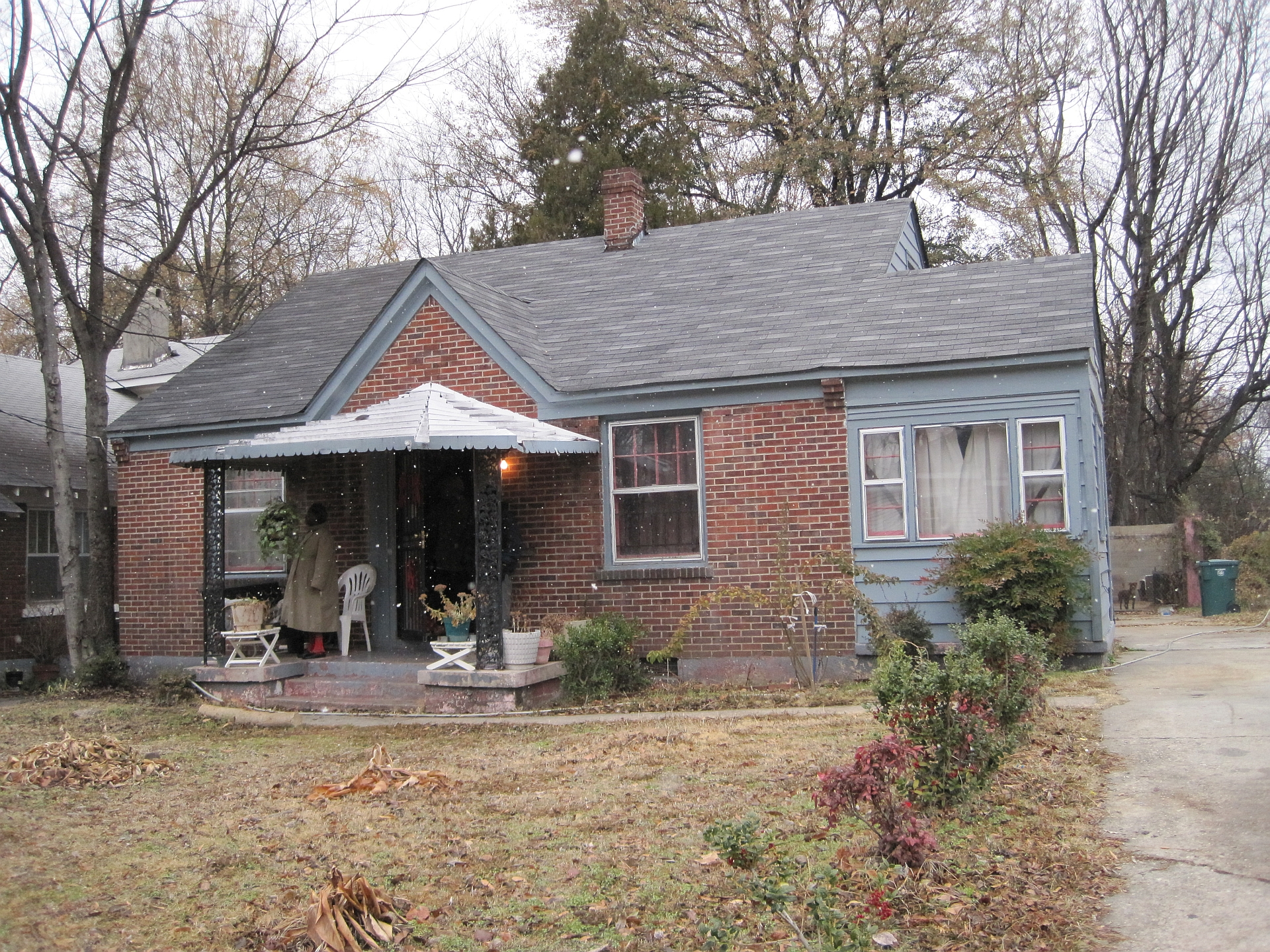 Booker T. Jones childhood home at 666 Edith Avenue in Memphis, Tennessee. The current owner of the house (seen in the picture) gave me permission to take the photos.